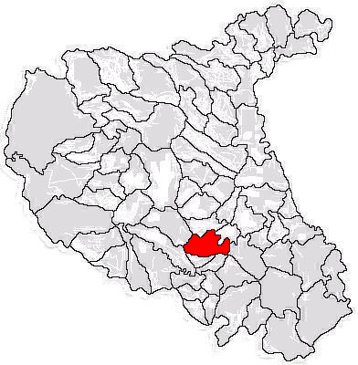 Map with limits of commune